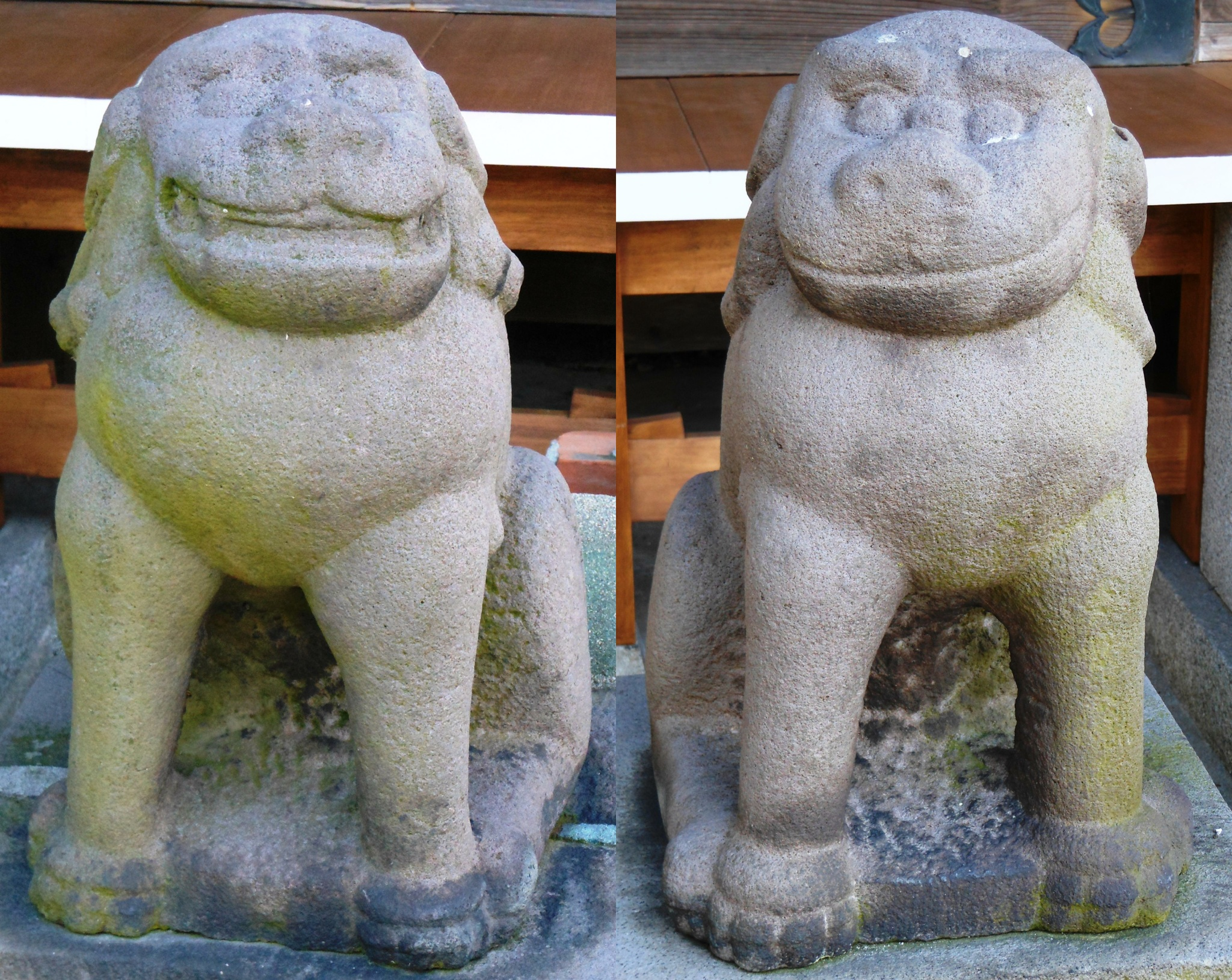 A pair of Hizen-type Komainu statures at Yasaka Shrine, in Hasuike, Saga City.